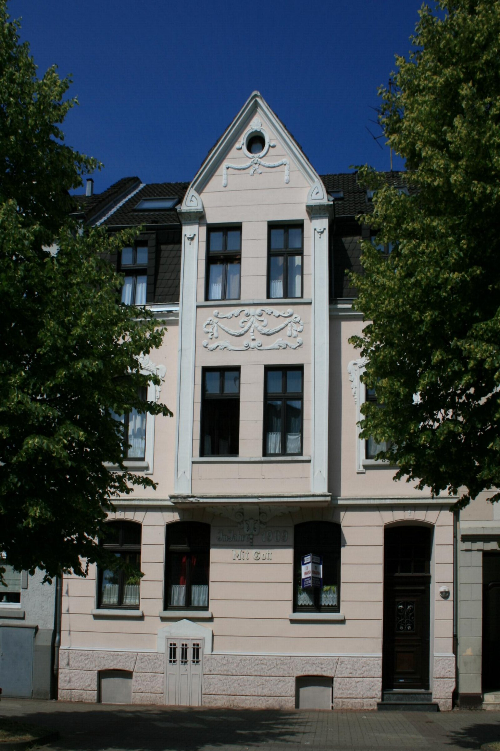 Cultural heritage monument No. S 001 in Mönchengladbach